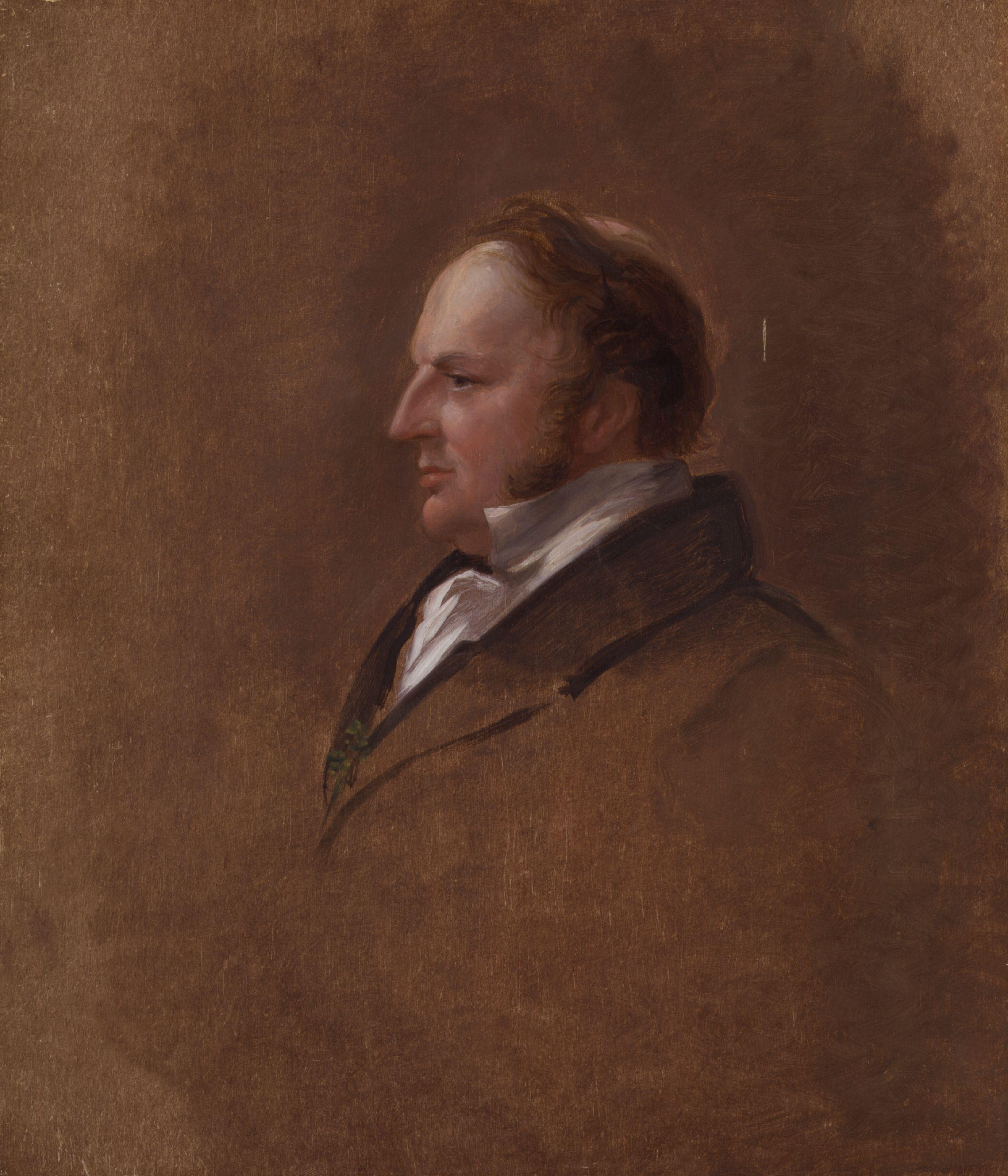 Sir Robert Harry Inglis, 2nd Bt, by Sir George Hayter (died 1871). All images in this batch have been confirmed as author died before 1939 according to the official death date listed by the NPG.